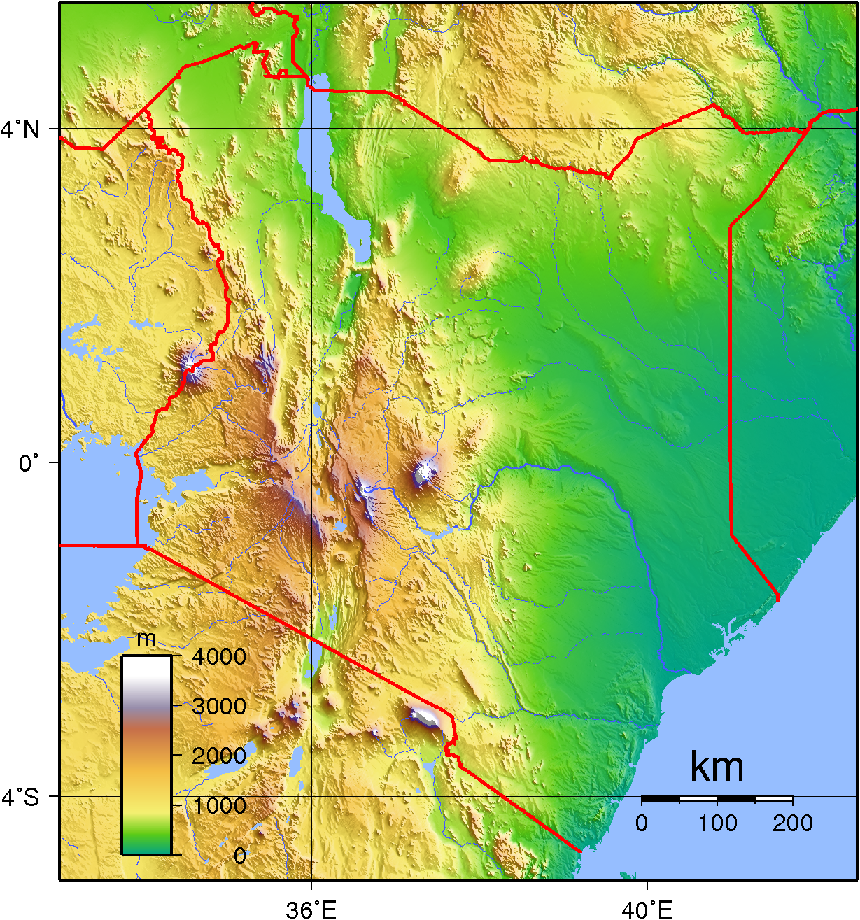 Topographic map of Kenya. Created with GMT from public domain GLOBE data.